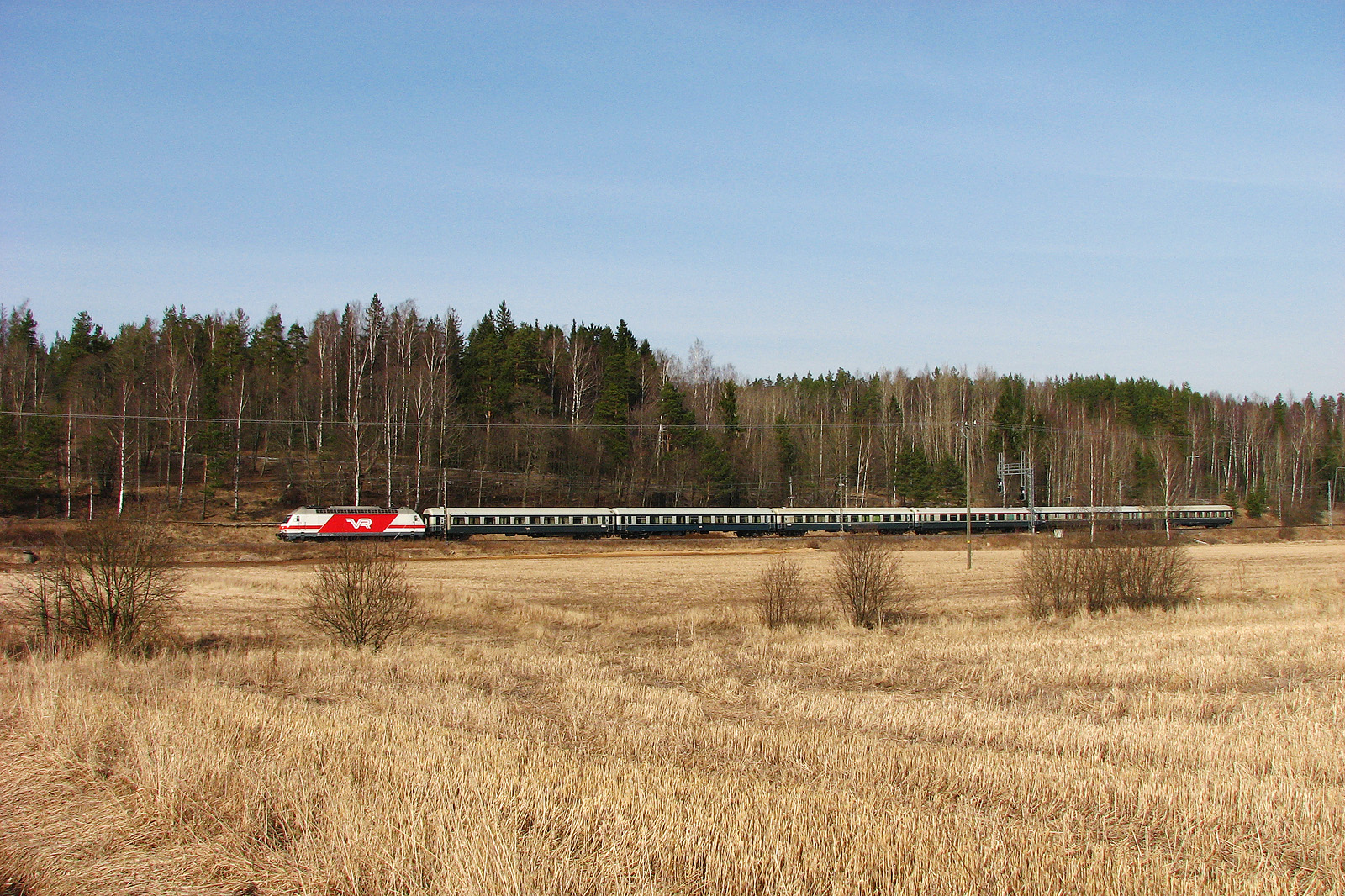 Express train from Helsinki to Turku in Kauklahti, Espoo, Finland.